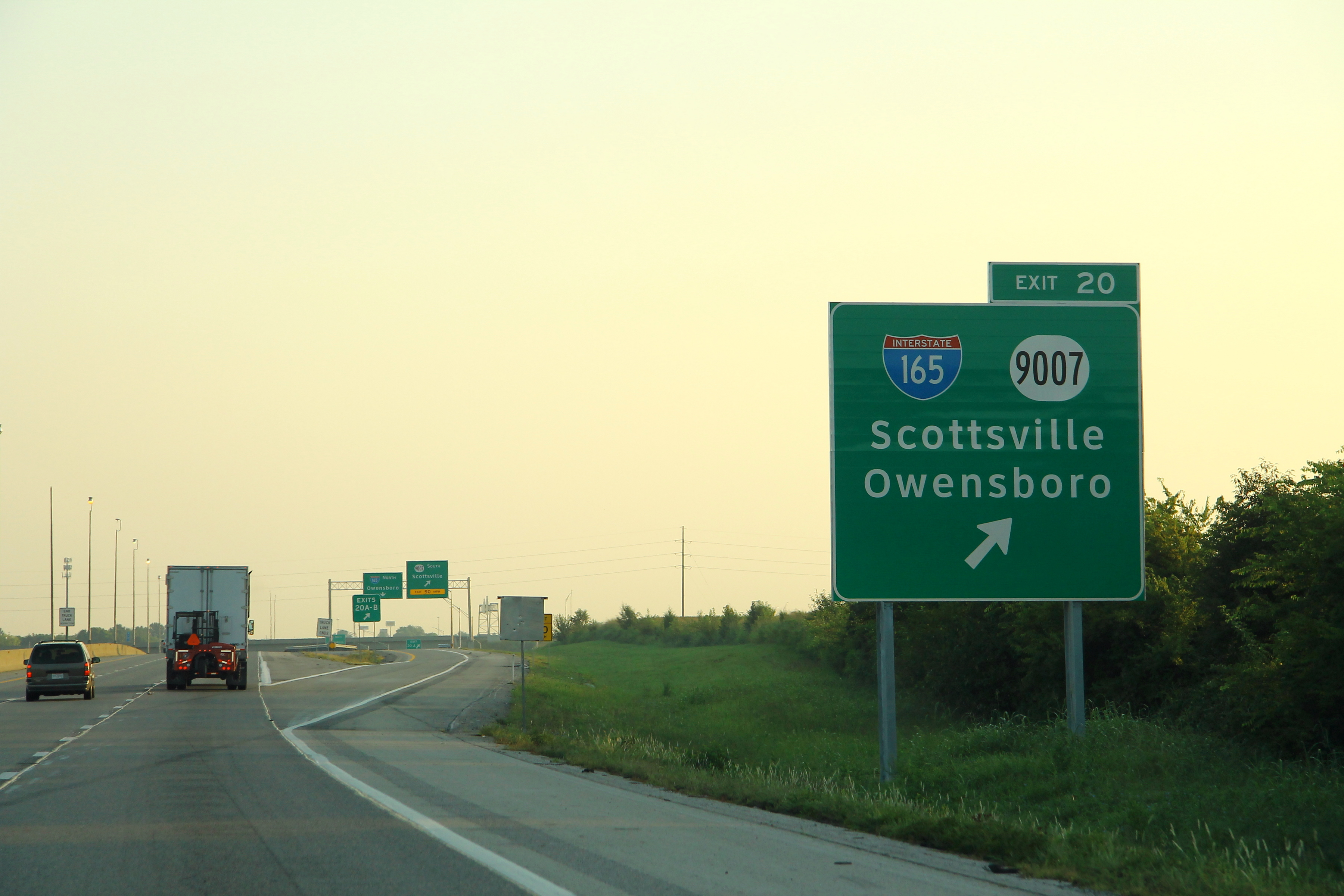 Interstate 65 exit for Interstate 265 and Kentucky Route 9007